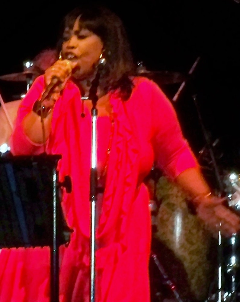 Ruby Turner belting it out at Guilfest 2012.